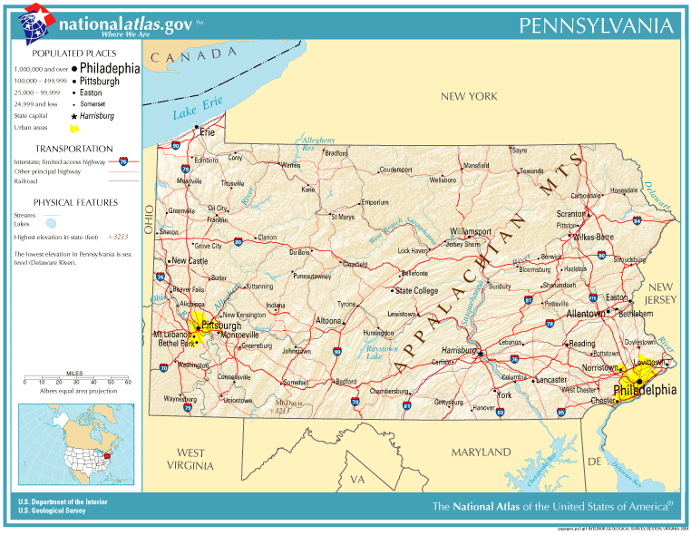 Map of Pennsylvania.